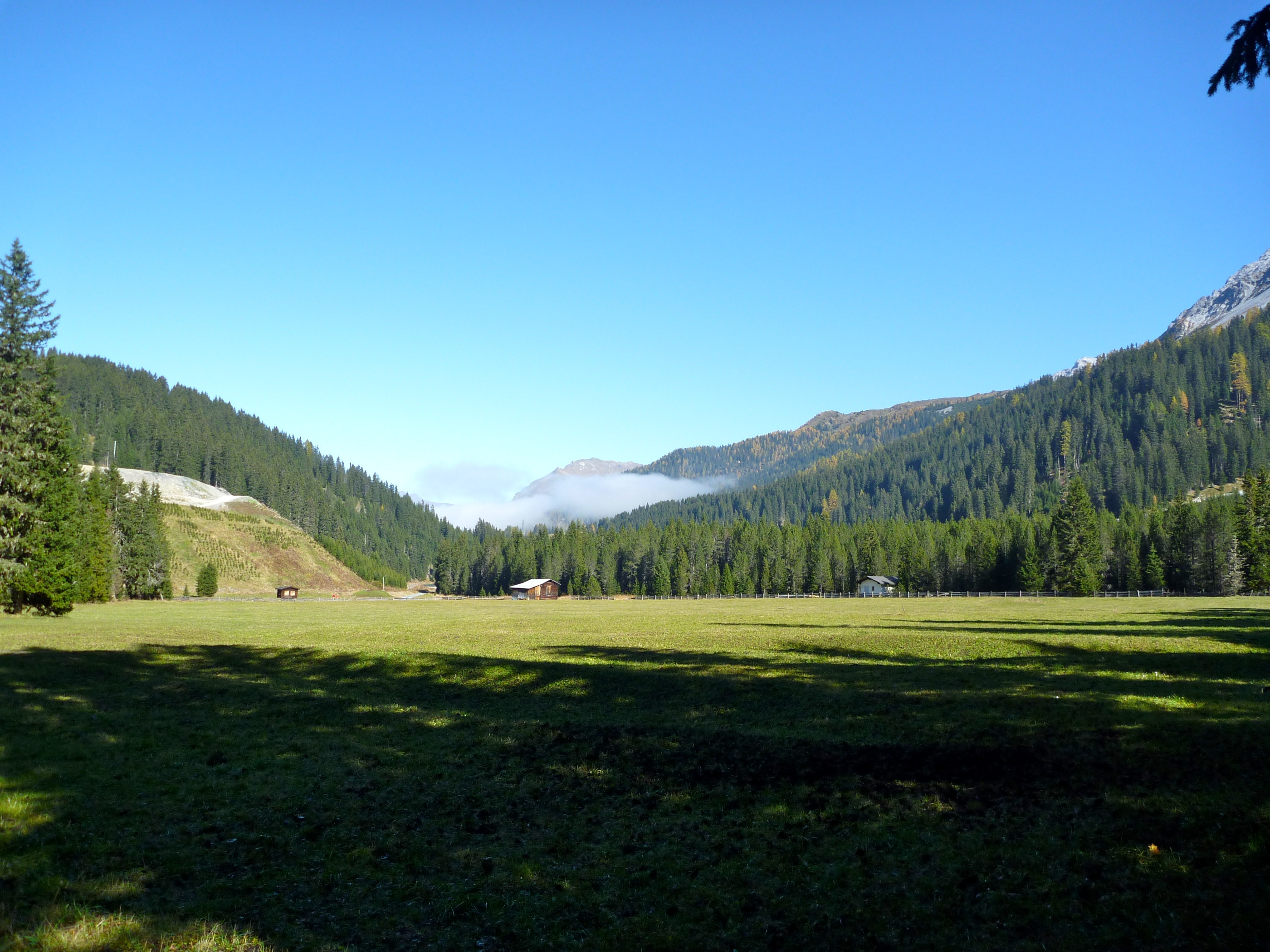 hayfield "Iselwiese" at Arosa, Switzerland